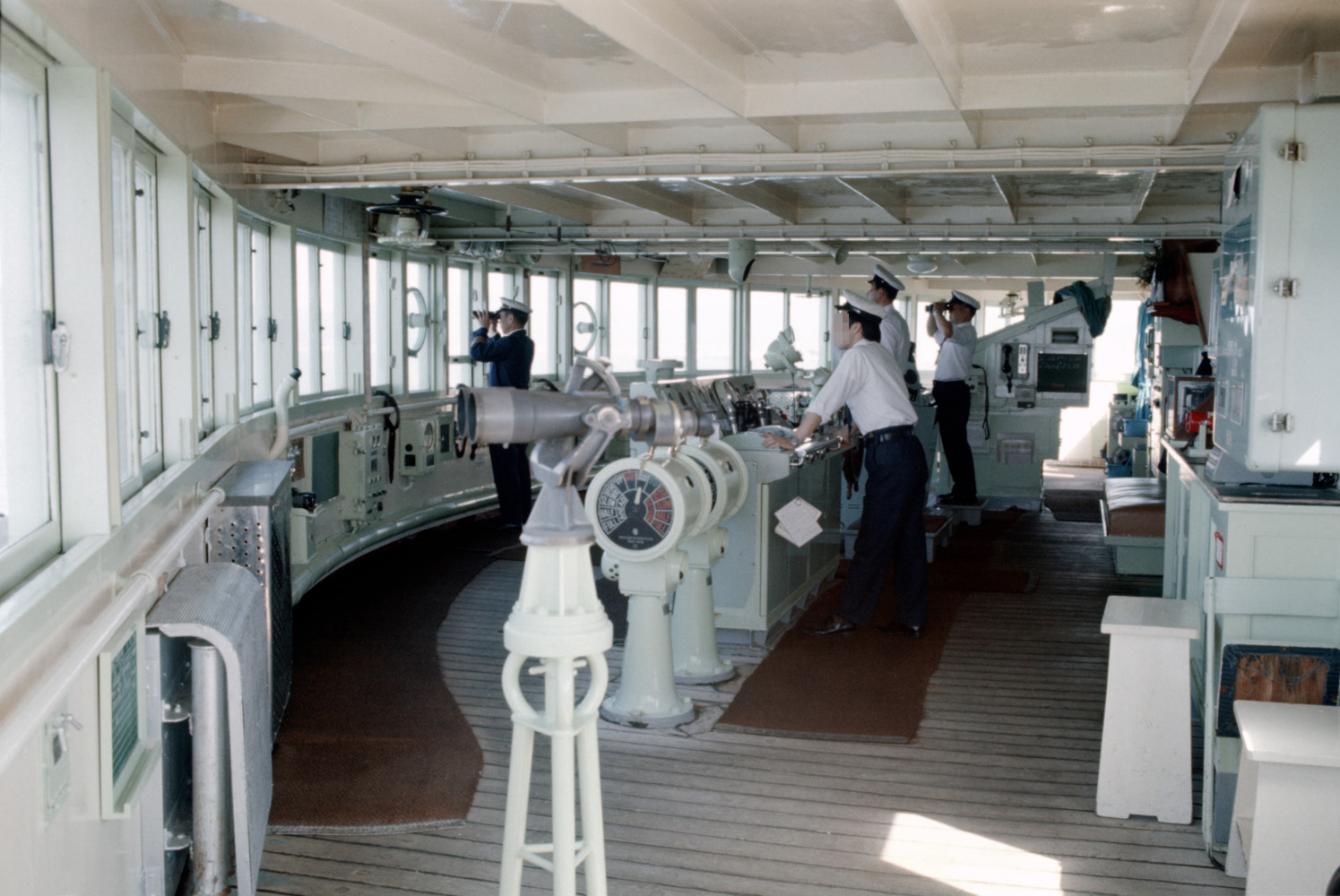 Main engine remote controller was installed in this wheel house at the remodeling in 1967.